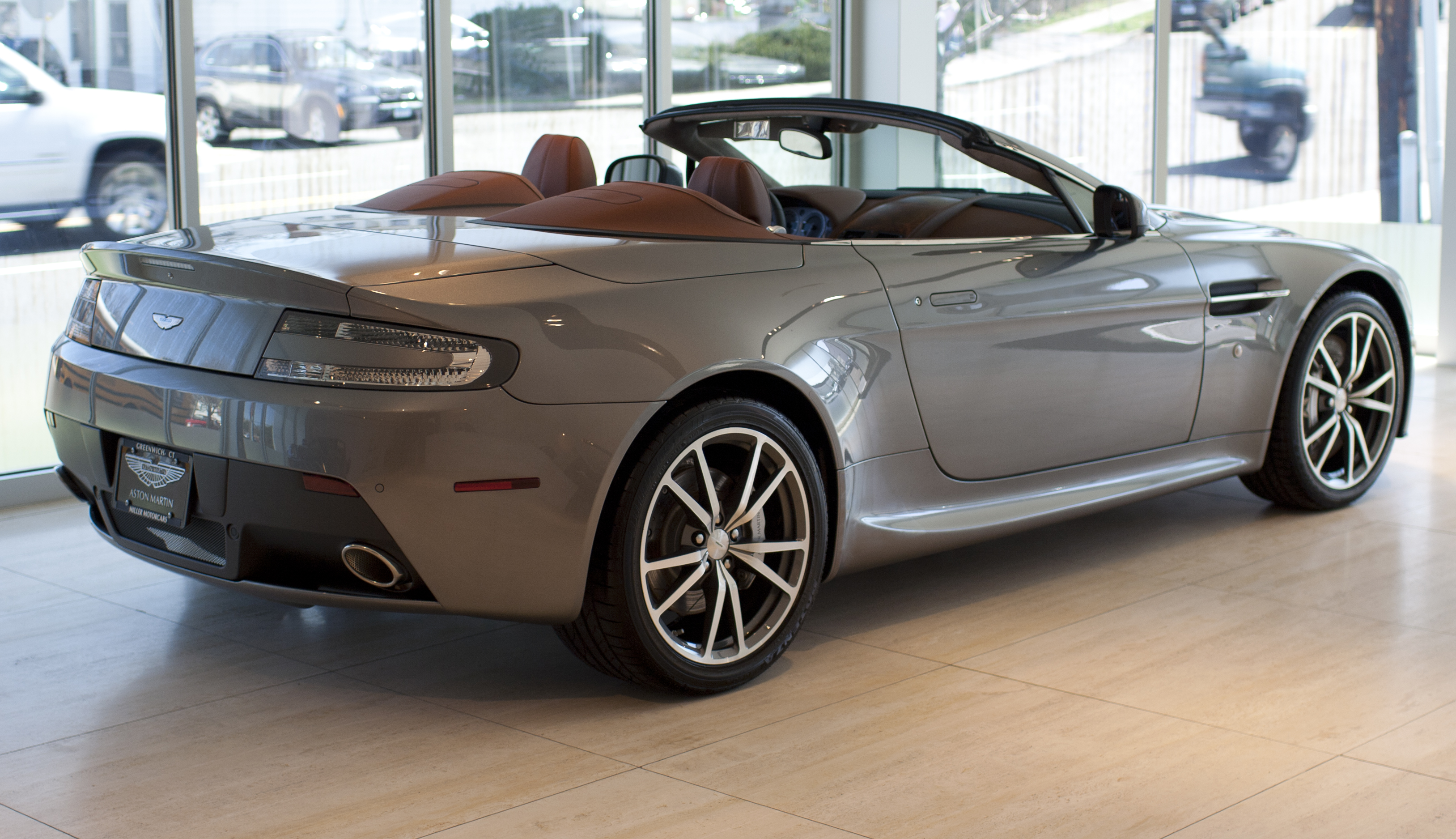 2013 Aston Martin V8 Vantage Roadster in Meteorite Silver, with Chancellor Red interior